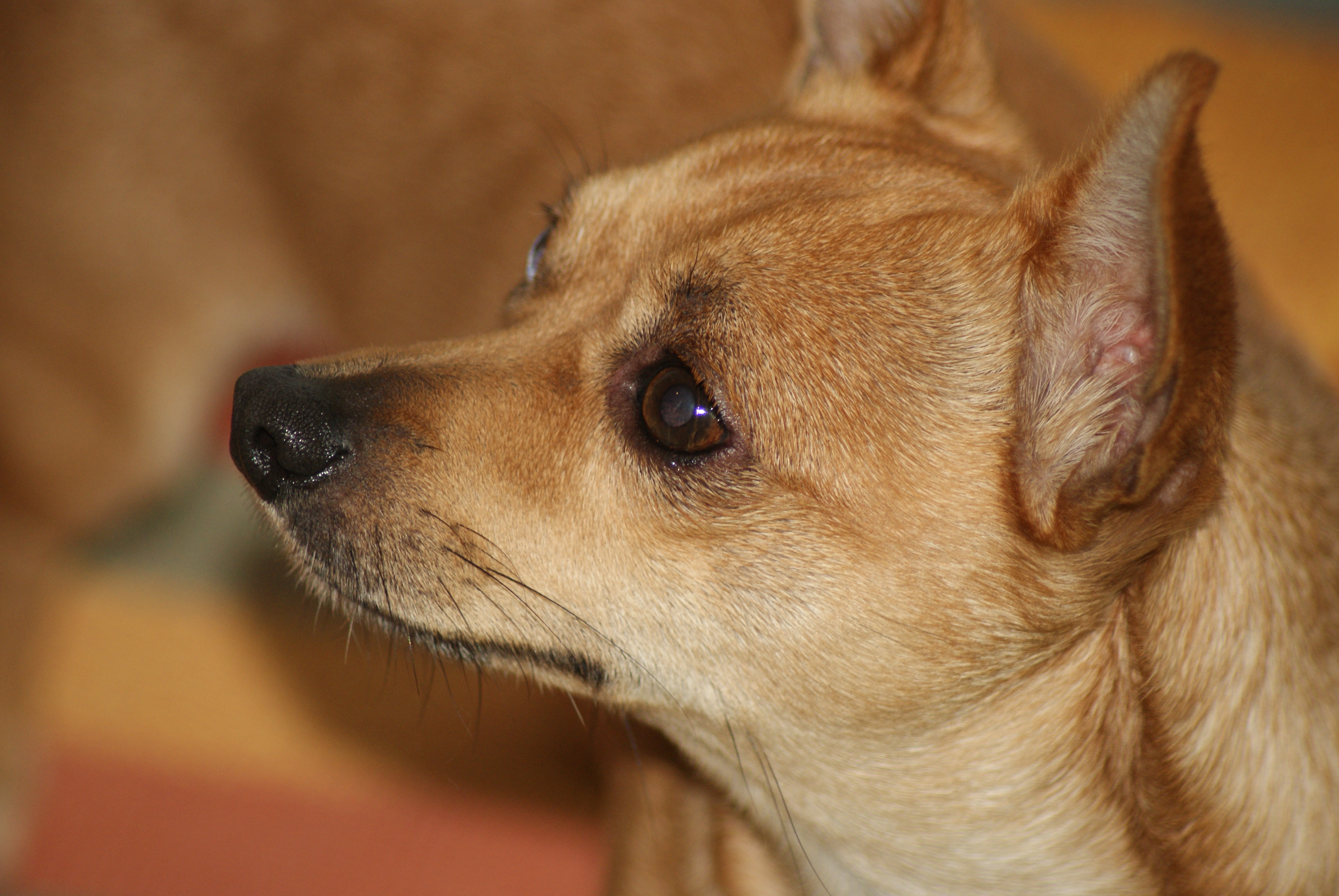 Chihuahua Dog